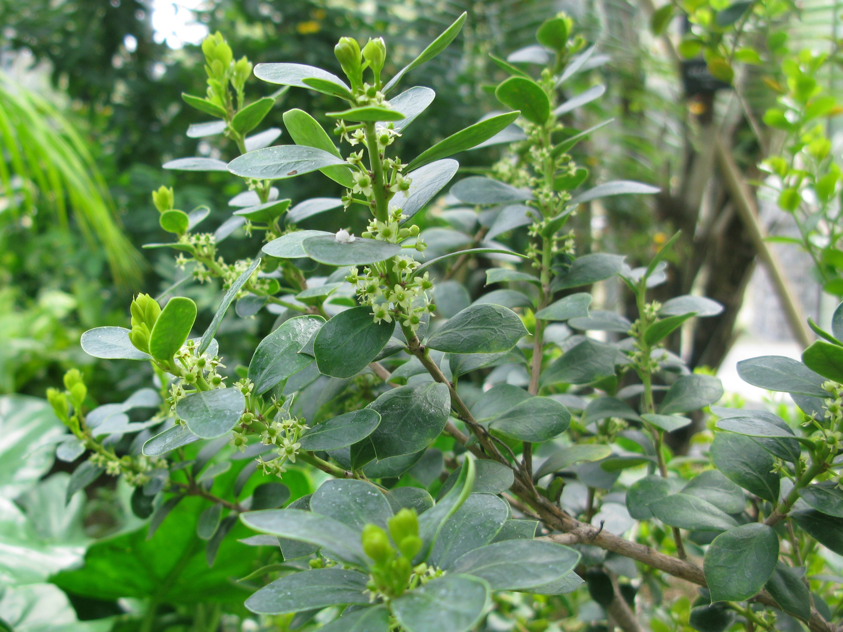 Ilex dimorphophylla, Shinjuku Gyoen National Garden, greenhouse, Tokyo, Japan